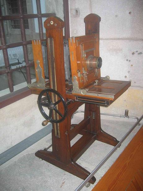 Centro Português de Fotografia - Old studio camera - Oporto - Portugal